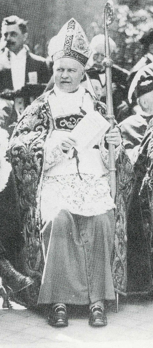 Jozef van Roey 1874-1961 - Archbishop of Belgium and Cardinal.